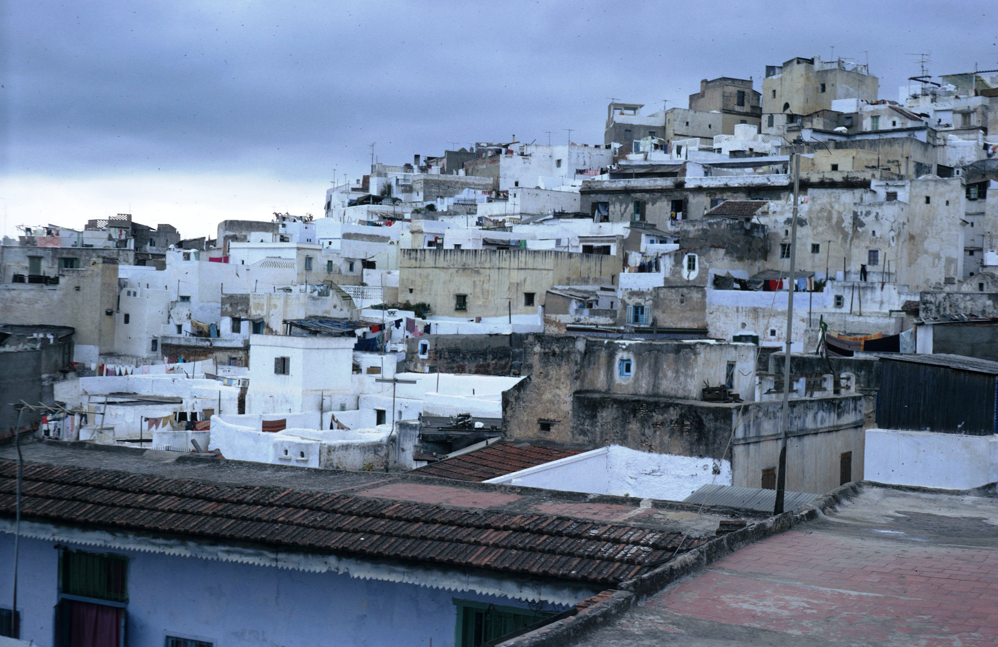 Casbah of Algiers